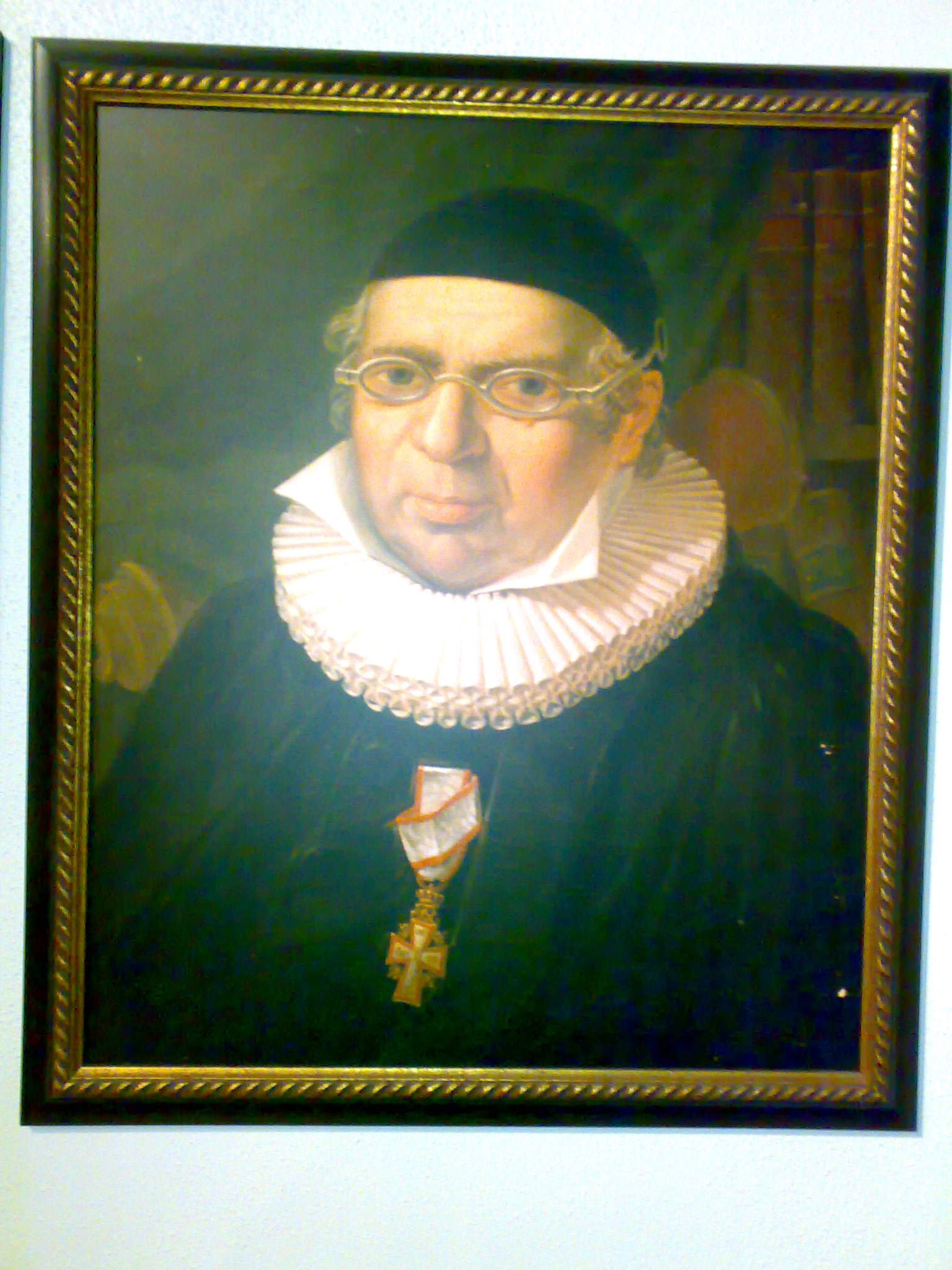 Abraham Pihl, painting in Teknisk Museum, Oslo. Probably painted by Johannes Flintoe